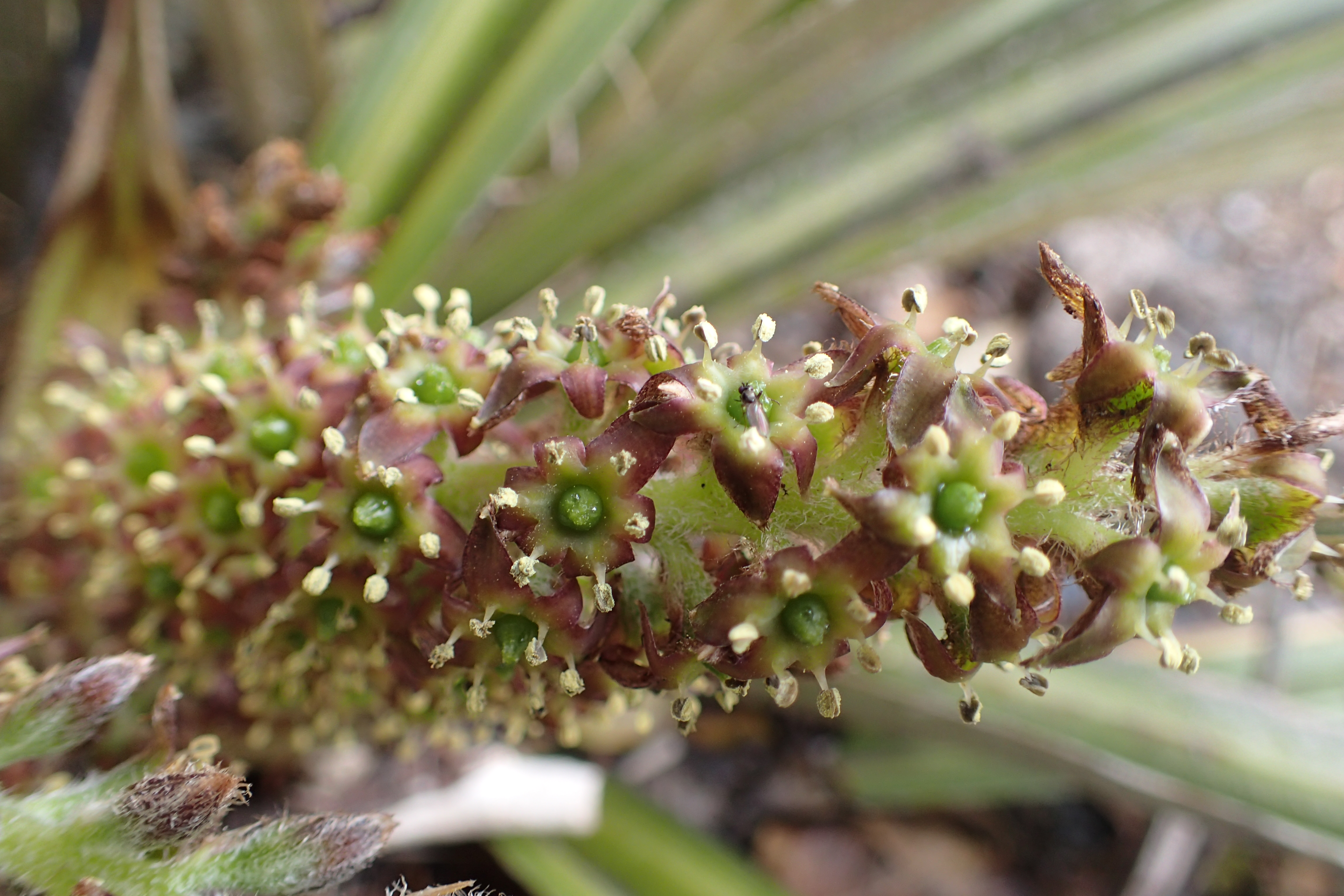 Astelia nervosa in Whakapapa, Waikato (New Zealand)